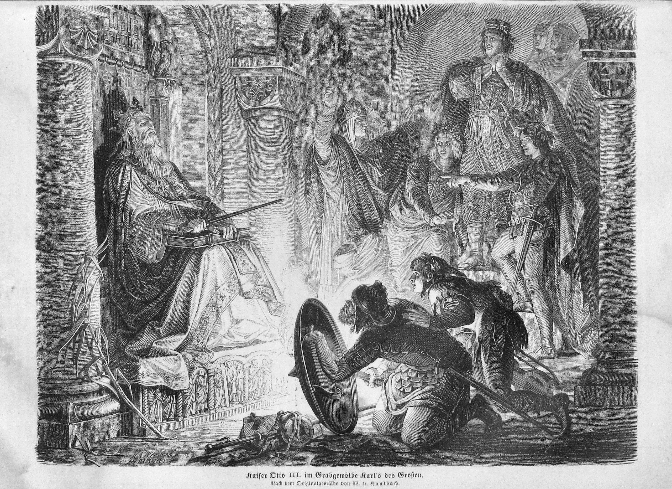 caption: "Kaiser Otto III. im Grabgewölbe Karl’s des Großen.Nach dem Orignialgemälde von W. v. Kaulbach."